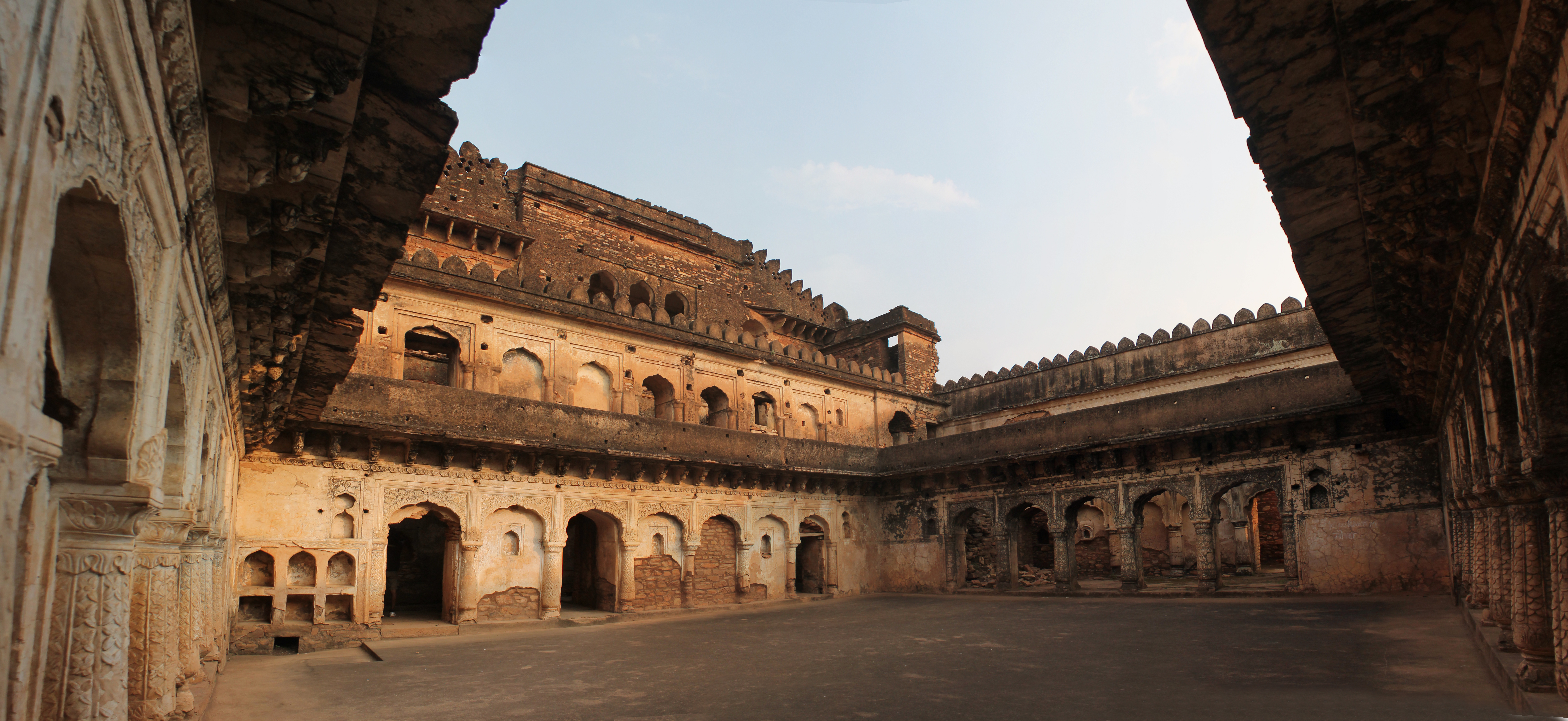 Panoramic view of Rani Mahal Kalinjar fort